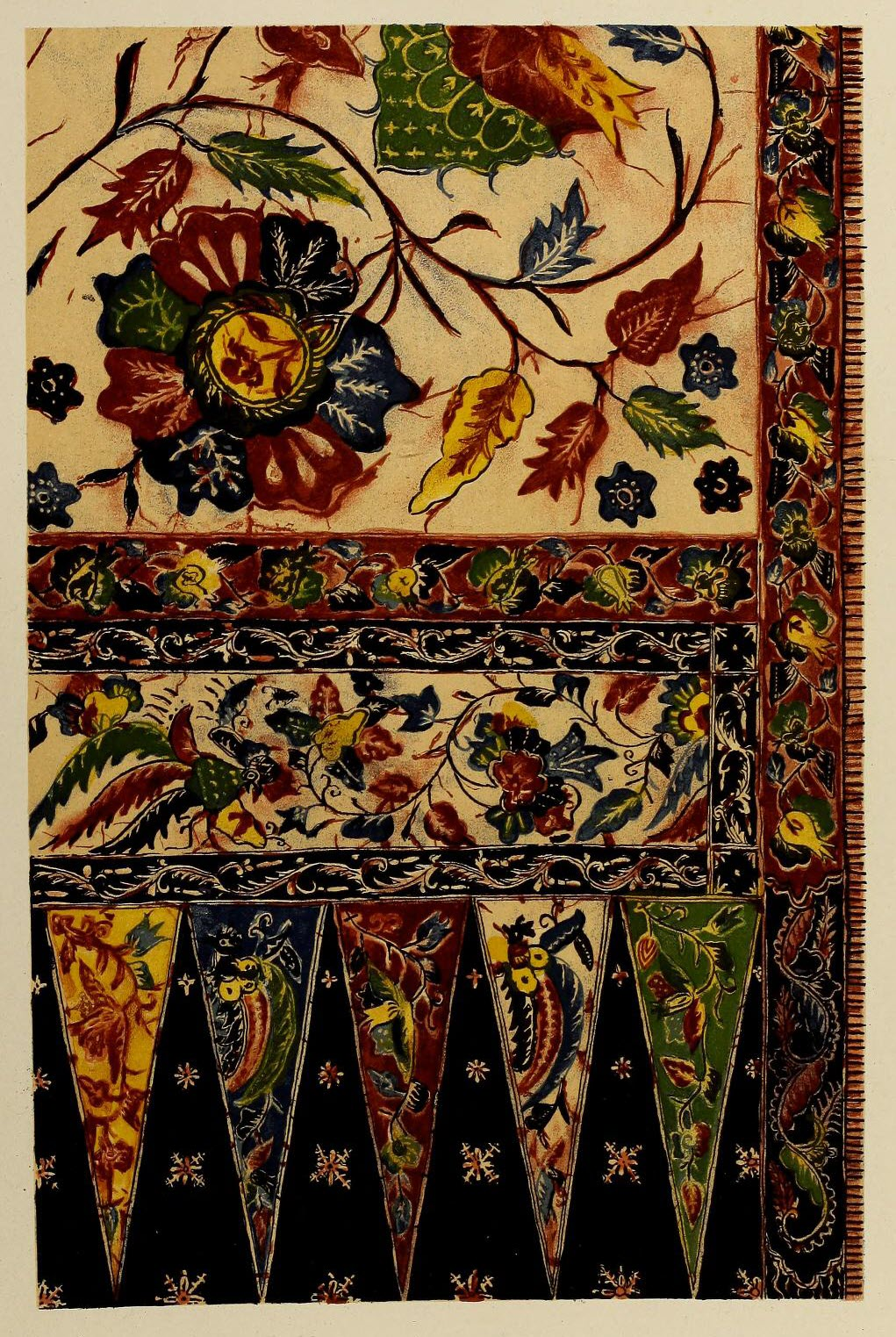 De inlandsche kunstnijverheid in Nederlandsch Indië (1912) In the Mary Ann Beinecke Decorative Art Collection. Sterling and Francine Clark Art Institute Library.